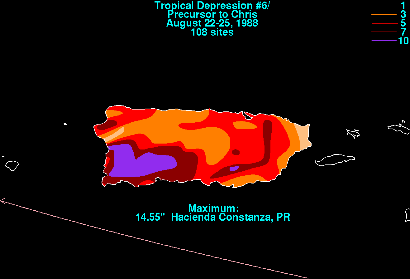 Rainfall produced by Tropical Storm Chris in Puerto Rico during August 1988.